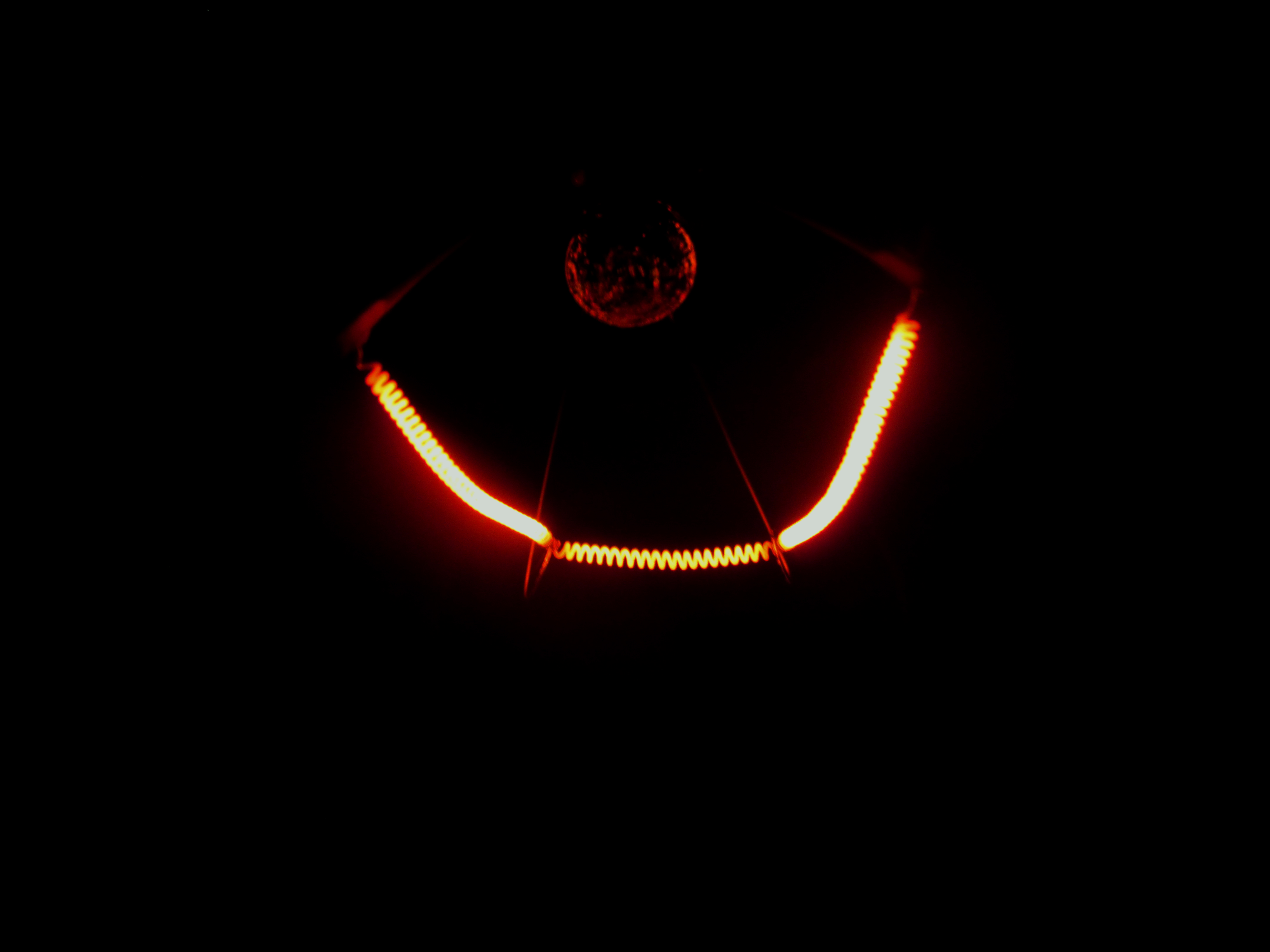 a lamp with low voltage, less than 220 V, this made the light of the lamp much darker and possible for photography with this exposure.